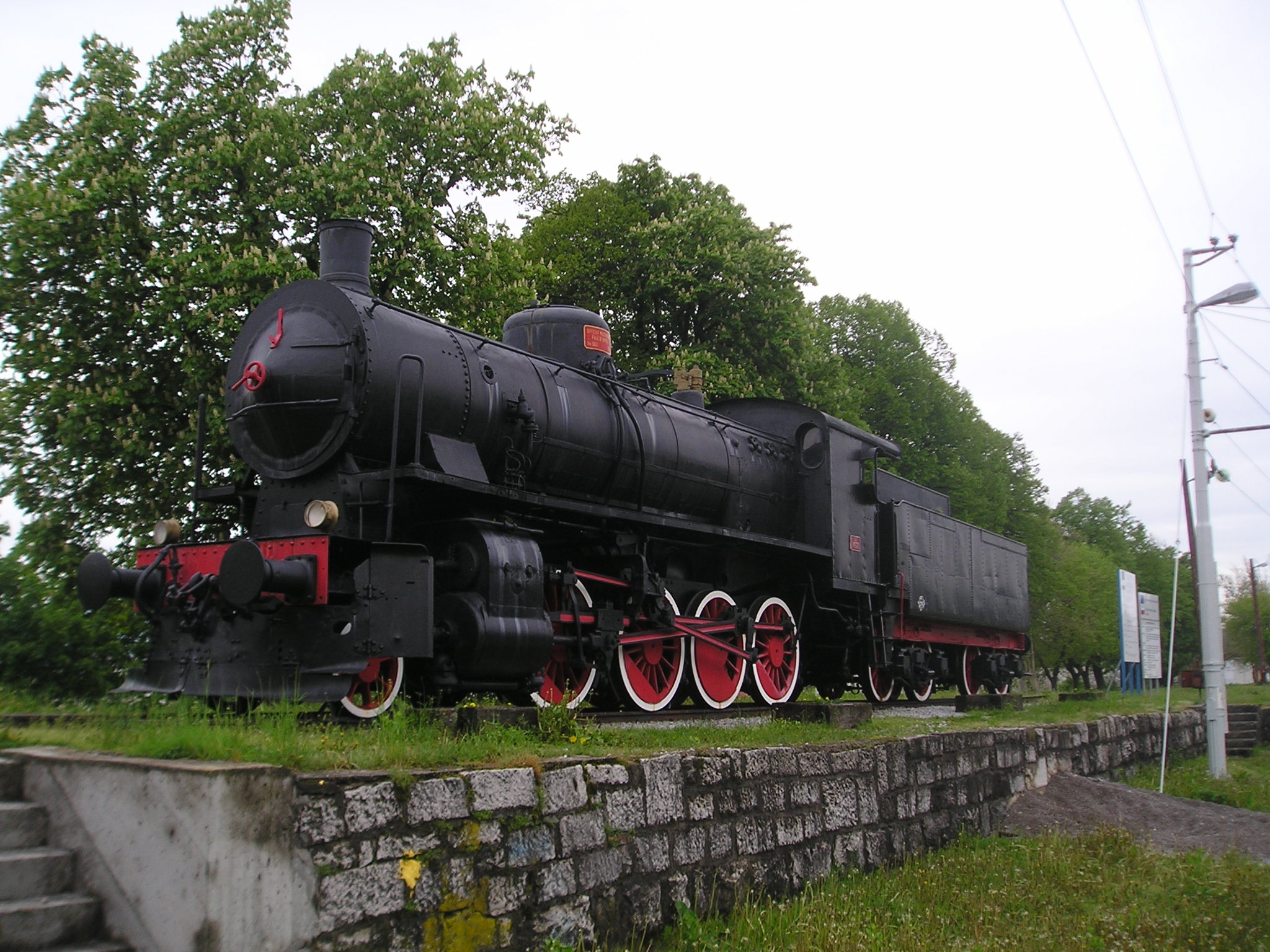 Normal gauge steam locomotive FS 740.121 at the train station in Postojna, Slovenia. Length: 19.9 m, steam pressure: 12 bar, diameter of driven wheels: 1370 mm, mass: 116.6 t, power: 720 kW, max. speed: 65 km/h. The locomotive was produced by Officine Mechaniche Napoli (Italy) in 1914, serial nr. 563. In total, 470 locomotives of this series were produced and are believed to be one of the best Italian made machines. Between both world wars (when western Slovenia was a part of Italy) these locomotives were in use on sections between Trieste, Postojna and Rijeka and in Istria. After the WW2 one of the locomotives (not this one) was incorporated into the Yugoslav Railways' rolling stock and assigned the number JŽ 25-035. This locomotive was acquired (exchange) from Italy in 1982 and exhibited at the Postojna train station. It was assigned the invalid Yugoslav number JŽ 740.121 which can still be seen on its left side. Pospichal Lokstatistik. About the class FS 740. More photos: 1 and 2.